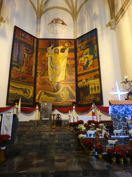 Tula de Alende (altar)